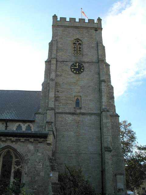 Sidmouth Parish Church Tower The Parish Church of St Giles and St Nicholas has a clock tower.